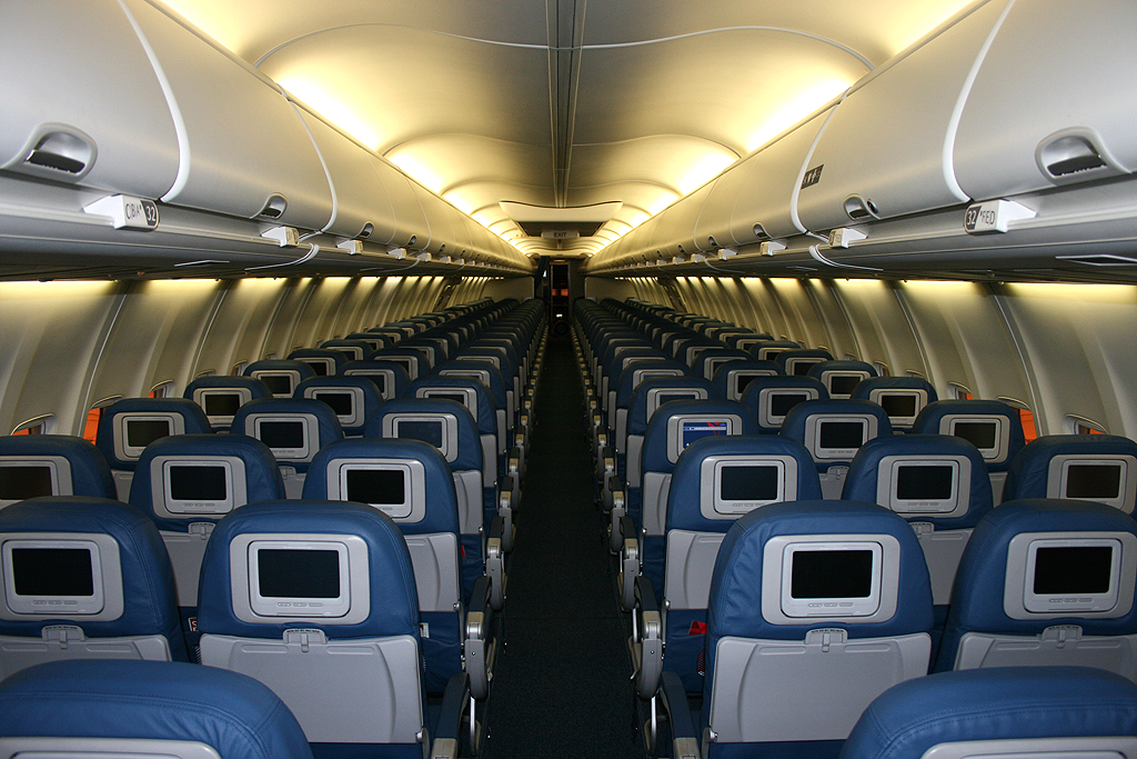 New interior on Delta Air Lines' Boeing 737-800 fleet.